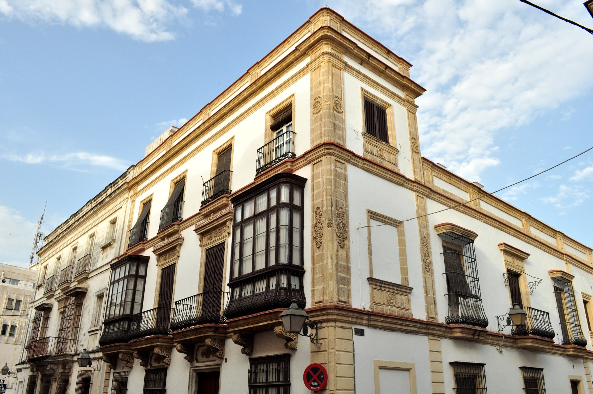 House in Pedro Alonso st / Sol St.